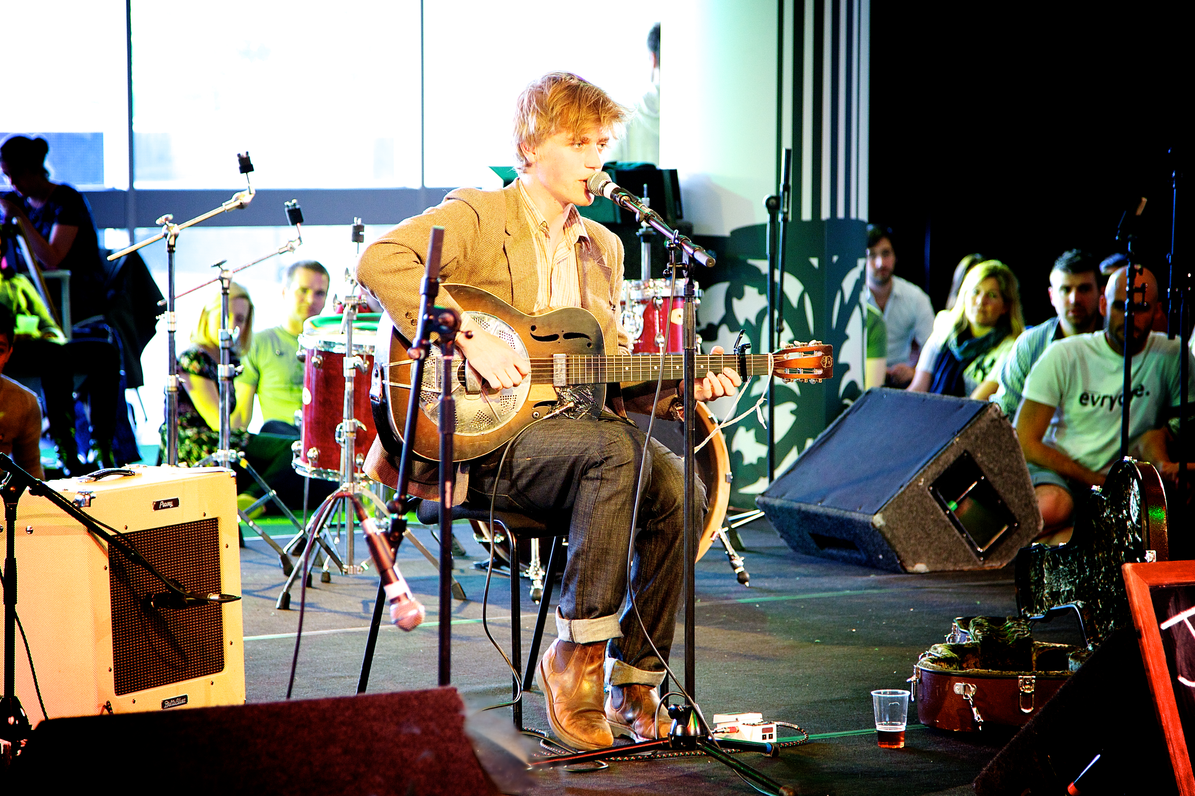 Clore Ballroom, 20th June 2010